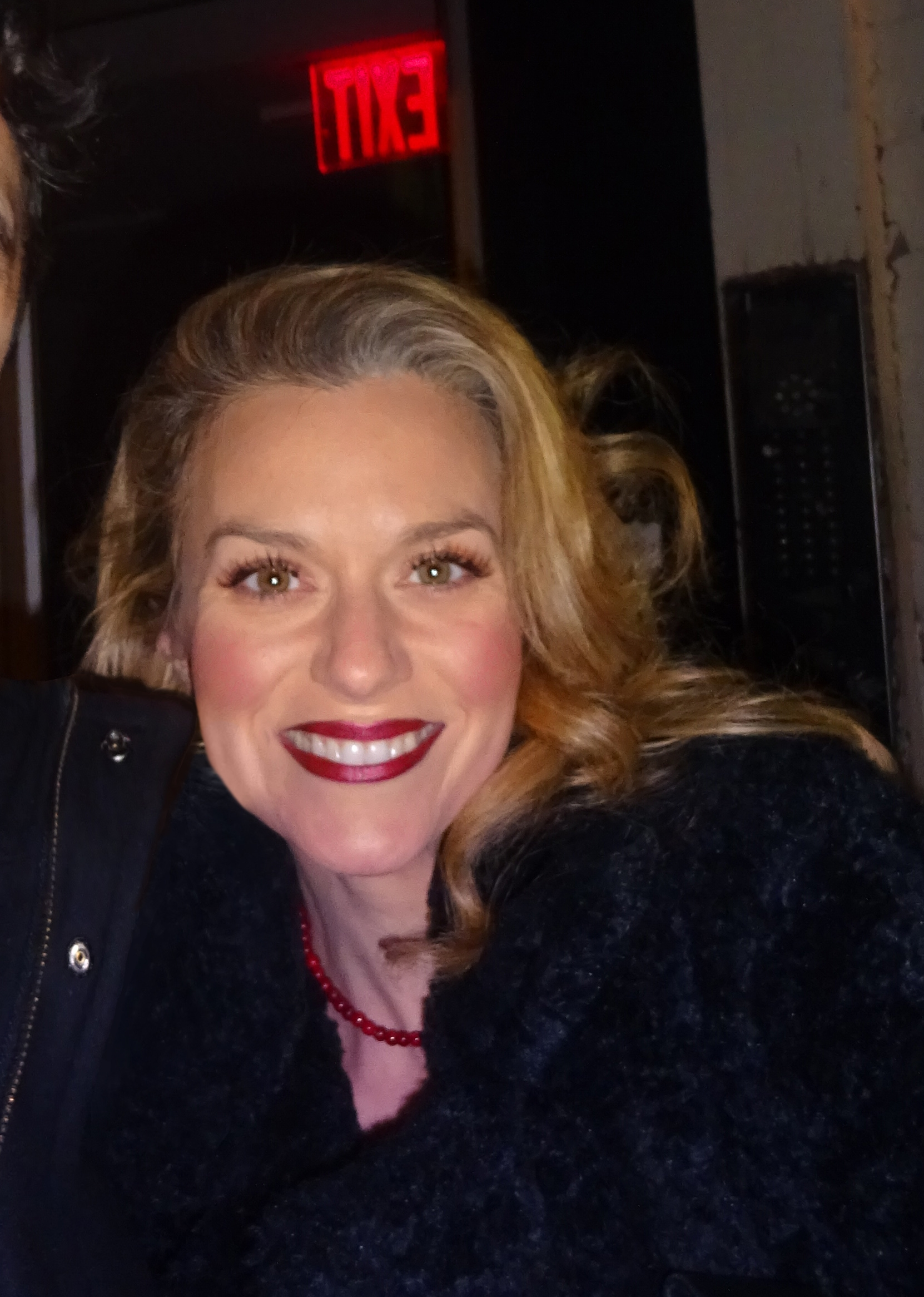 Star of One Tree Hill. NYC Dec '16.